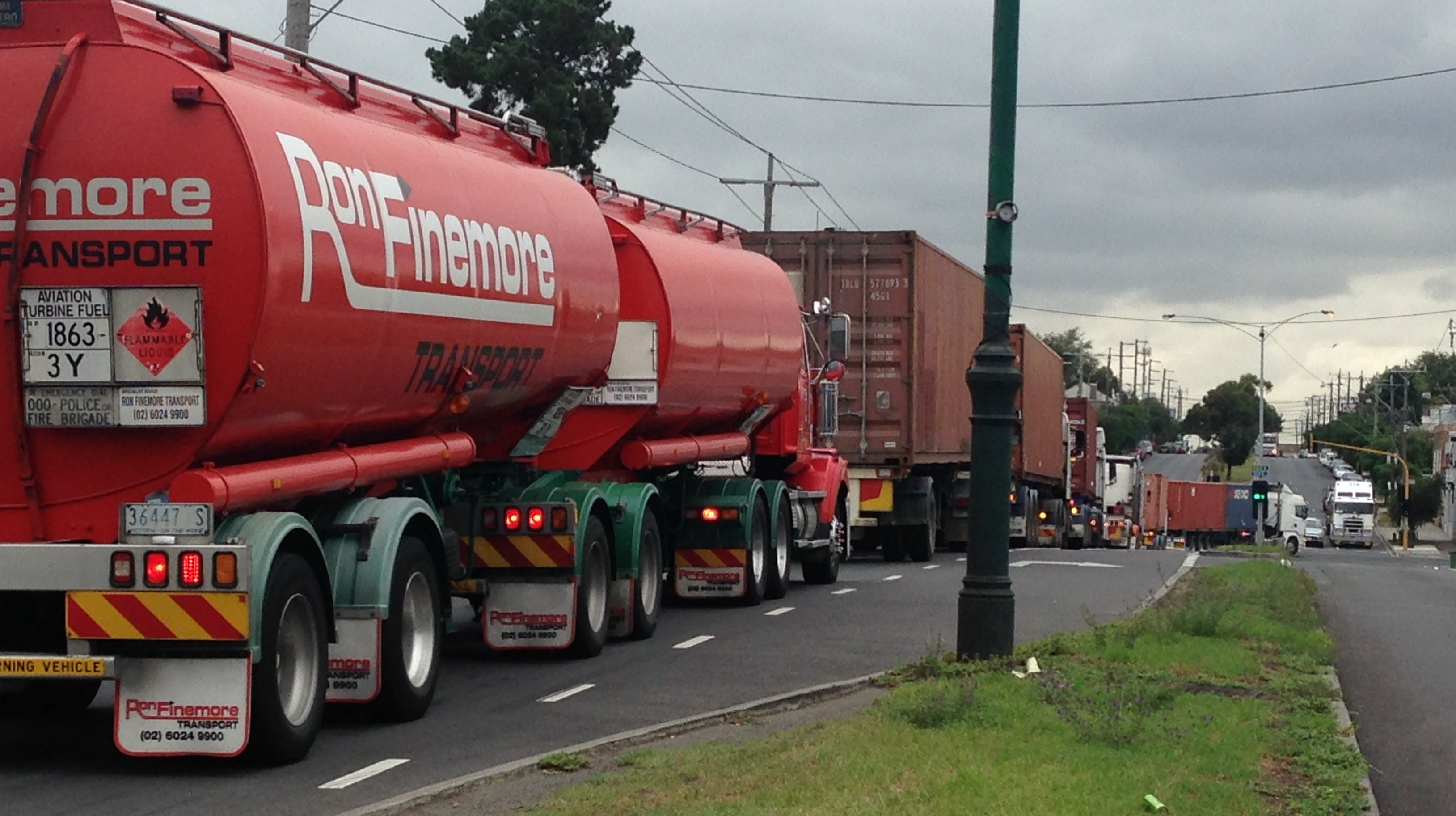 Heavy vehicles queue for traffic lights on Whitehall Street, Footscray, Melbourne.